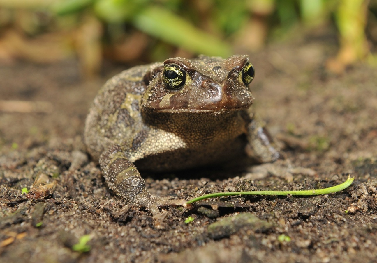 The Endangered Western Leopard Toad. Cape Town.